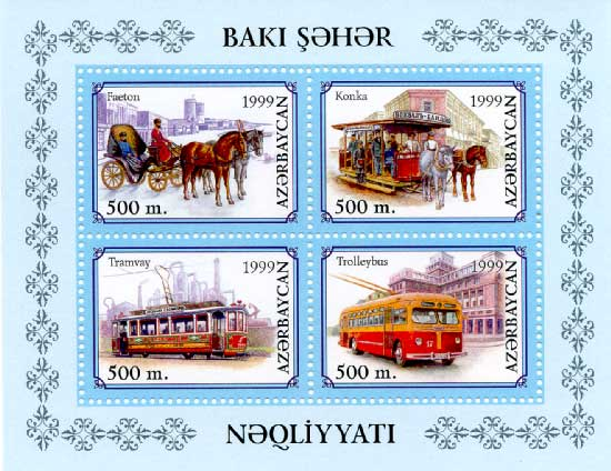 Pictures of Baku City buildings are the backgrounds of transportation facilities. N 554 - 500 man. A phaeton. N 555 - 500 man. A konka. N 556 - 500 man. A tram. 1925. N 557 - 500 man. A tram. 1948.